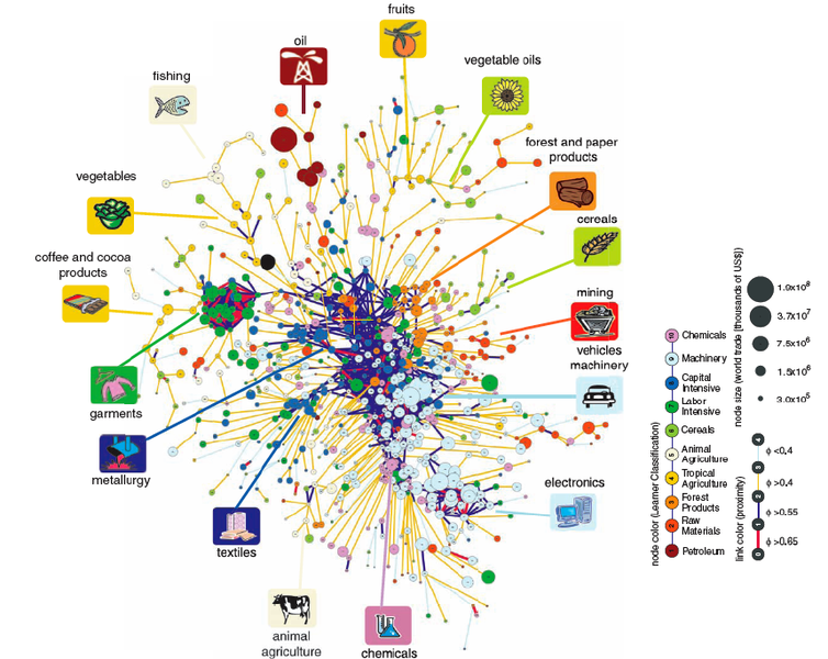 The Product Space is a network representation of the relatedness or proximity between products traded in the global market, first appearing in the journal Science in 2007.